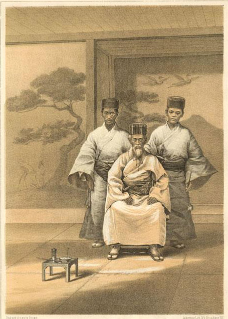 Regent of Lew Chew. Sōrikan (Prime Minister) Shō Kōkun, also known as Prince Yonashiro Chōki. The 9th head of Yonashiro Udun.